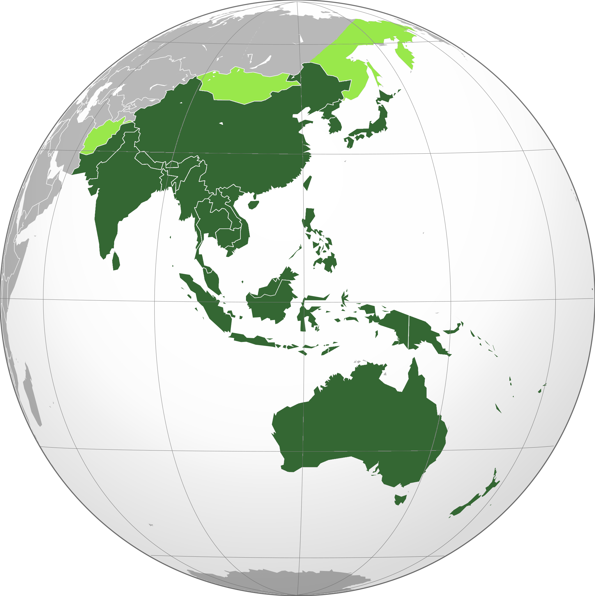 Countries and territories genreally included in the Asia-Pacific region in Dark Green.Countries and territories included in some definitions but not all are in Light Green. References for this description (or part of this) or for the depiction in the file are not provided.